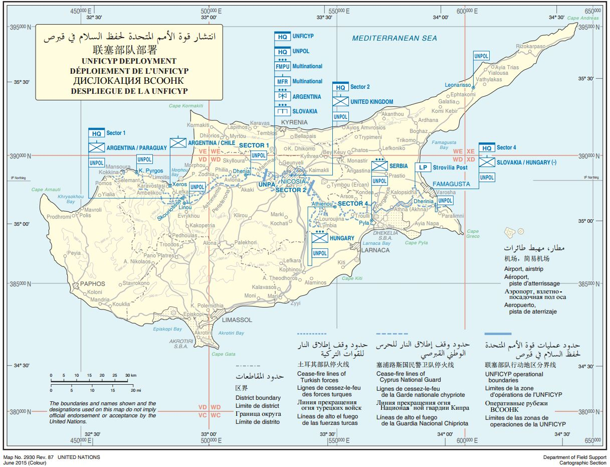 UNFICYP Deployment 2015 This image is a map derived from a United Nations map. Unless stated otherwise, UN maps are to be considered in the public domain. This applies worldwide. Some UN maps have special copyrights, as indicated on the map itself. UN maps are, in principle, open source material and you can use them in your work or for making your own map. UN requests however that you delete the UN name, logo and reference number upon any modification to the map. See: The UN Cartographic Section (retrieved 16 November 2013)